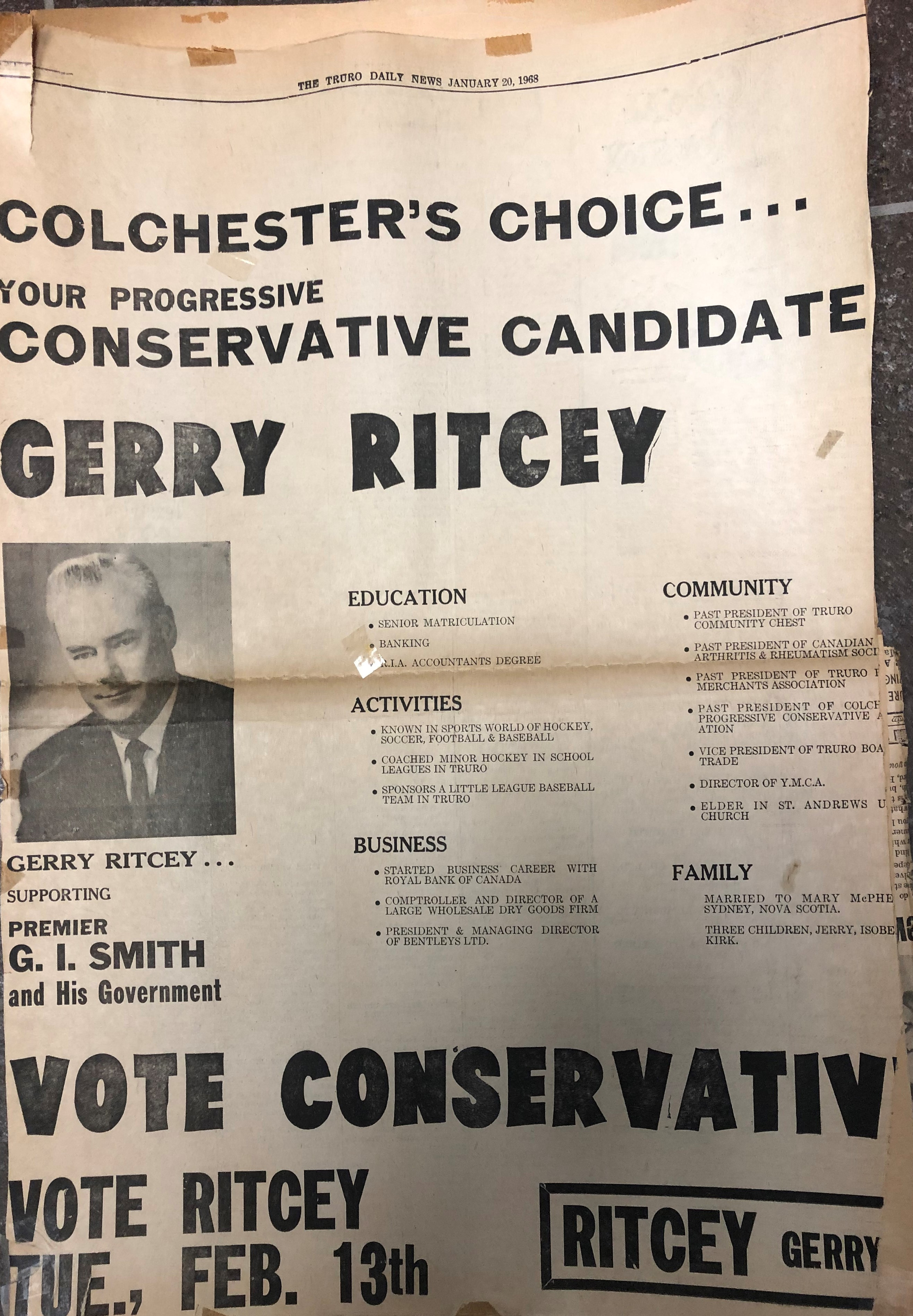 A newspaper campaign ad for Gerry Ritcey, for the early 1968 election for Colchester. A photo of Ritcey is in the newspaper clipping